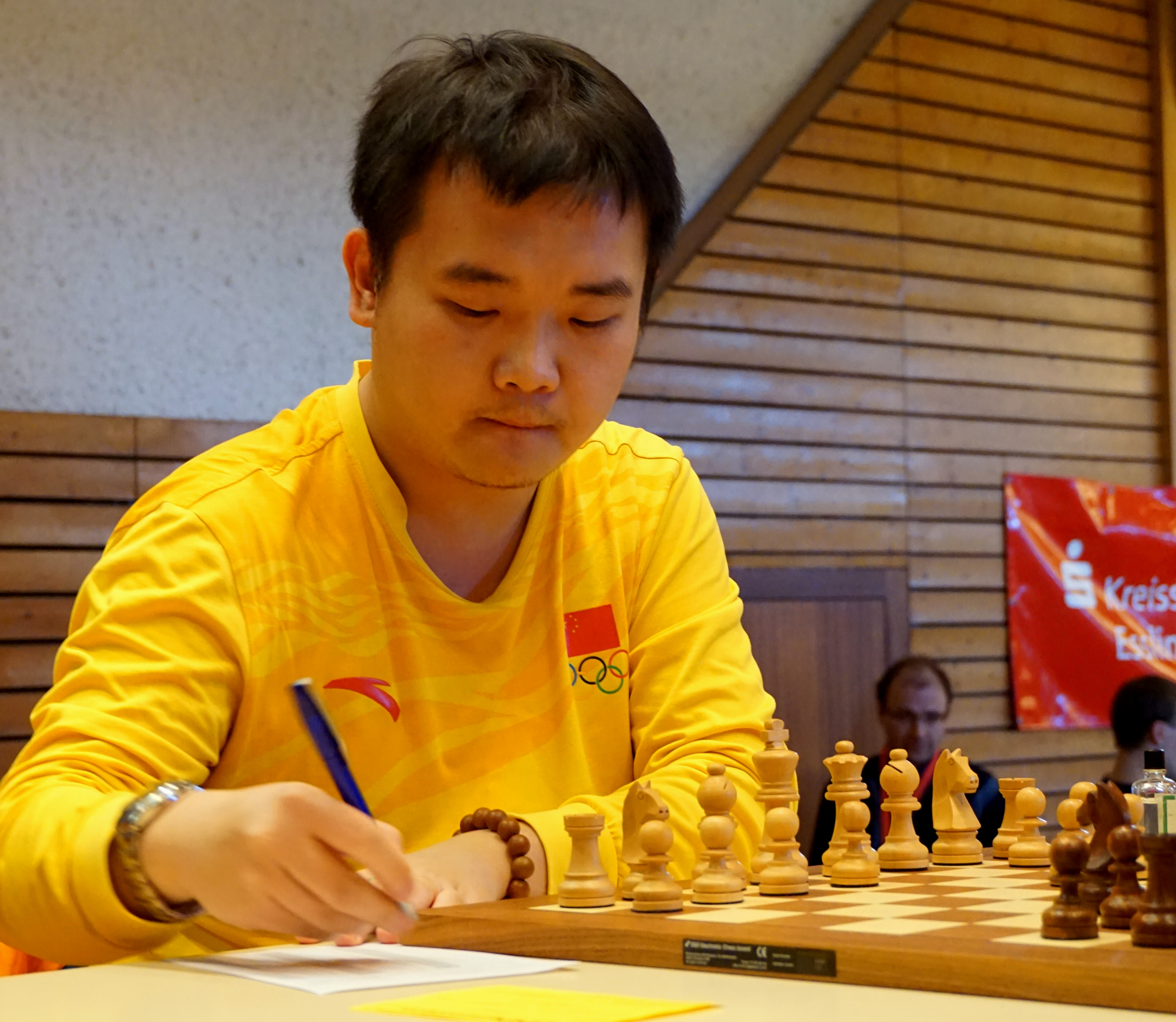 GM LI Chao, People's Republic of China, Chess Tournament Neckar-Open 2015 in Deizisau (Germany)